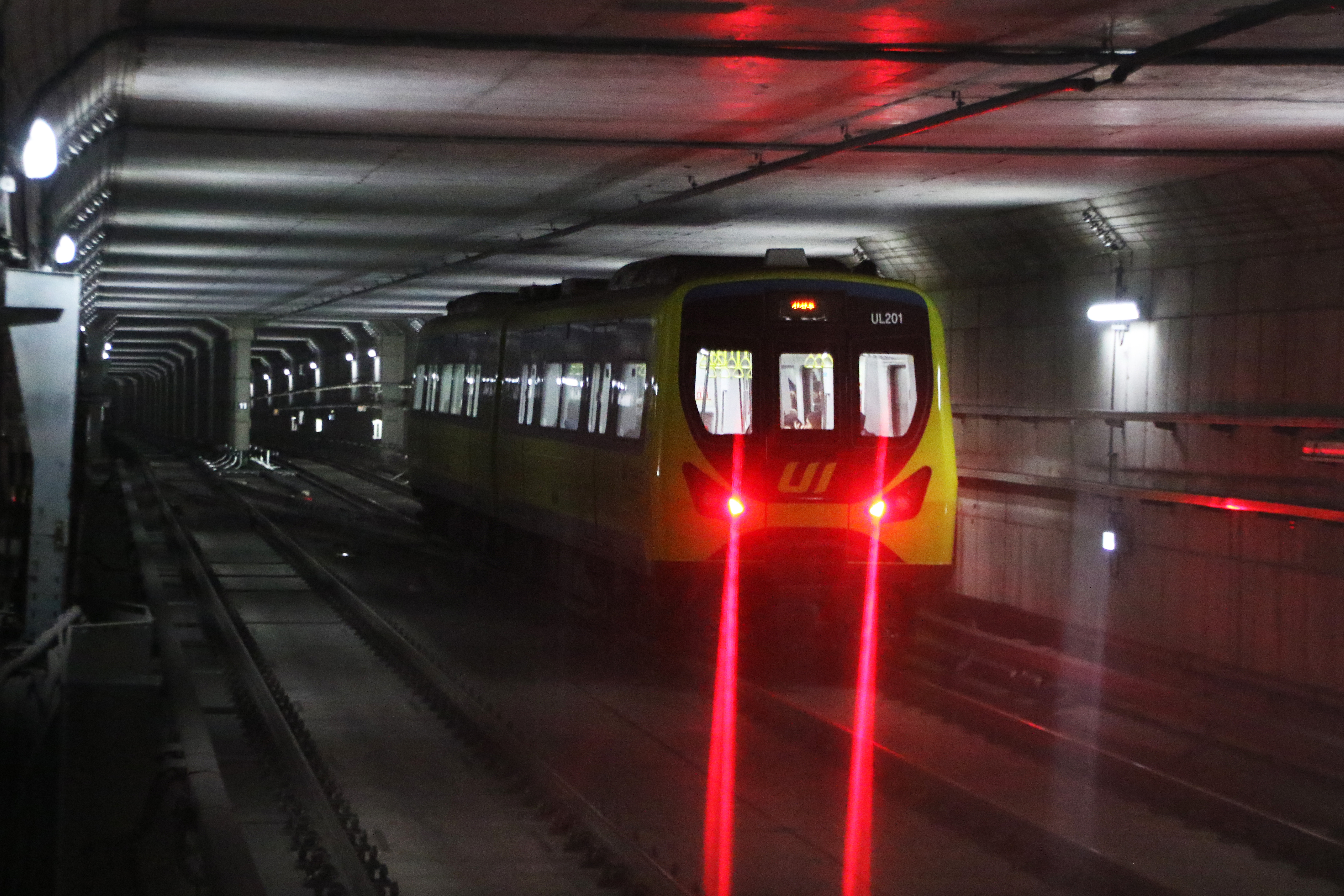 Sinseol-dong-bound UiTrans Ui-Sinseol Line train of Hyundai-Rotem UiTrans UL-series cars (train UL-01) leaving Solbat Park.